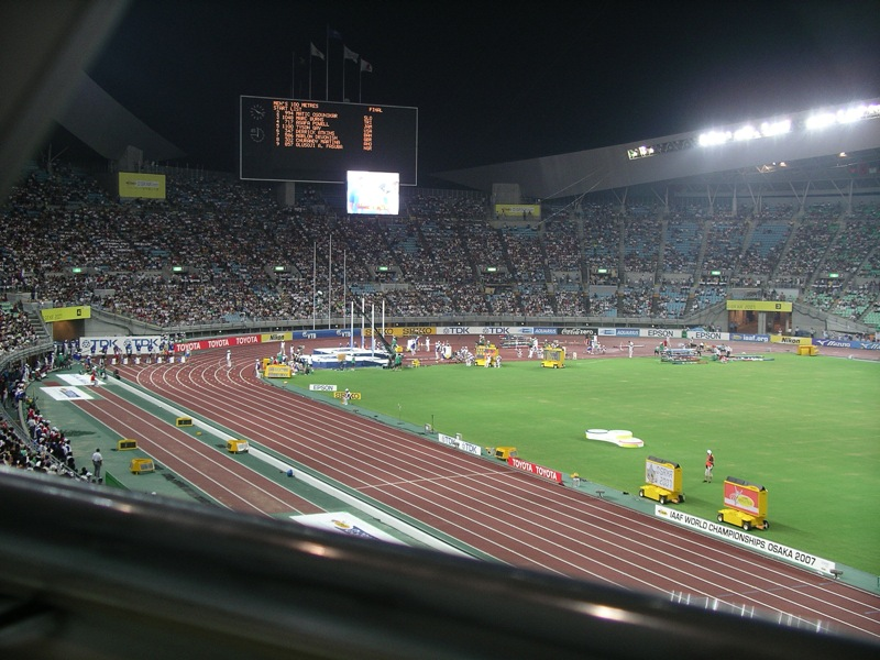 This is a view down the homestretch from my seat in the media tribune, shortly before the men's 100m final. The long and triple jump runways are outside the homestretch, and the white wall in between is the rail for the camera which tracks the runners down the homestretch.